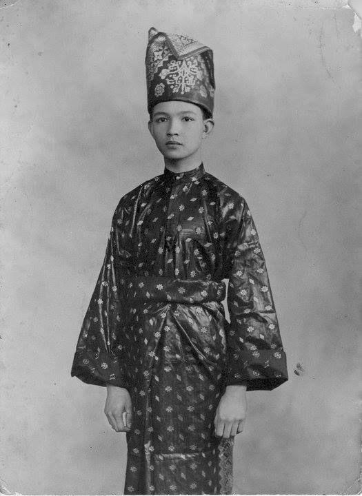 Tengku Abd Aziz Sultan Sulaiman Badrul Alam Shah, a member of Terengganu aristocracy .